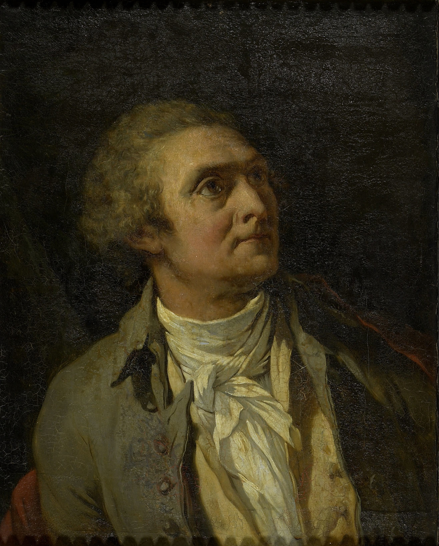 Portrait of Horace Benedict de Saussure, by St. Ours.